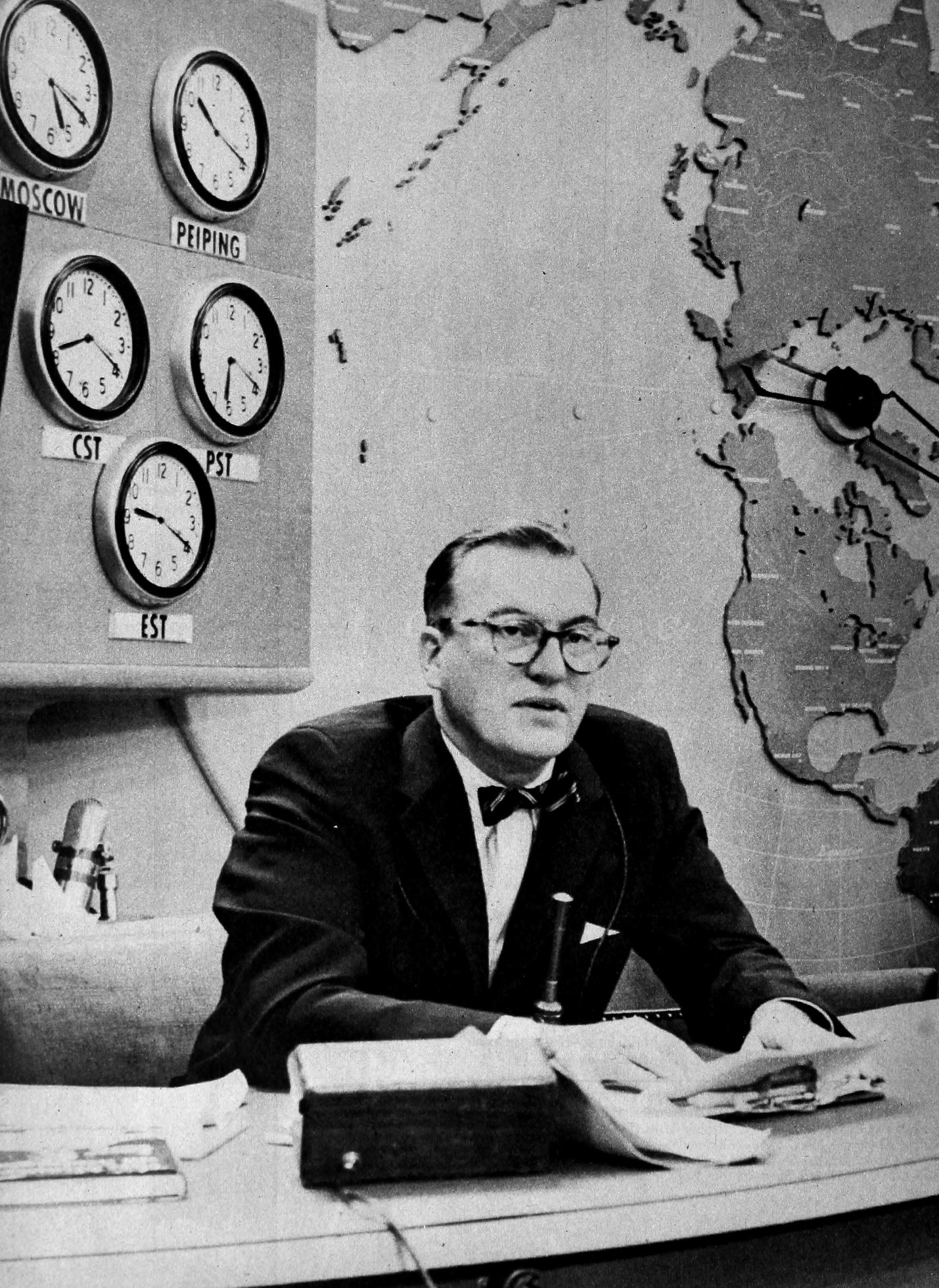 Photo of Dave Garroway on the air from the Today show, 1955.